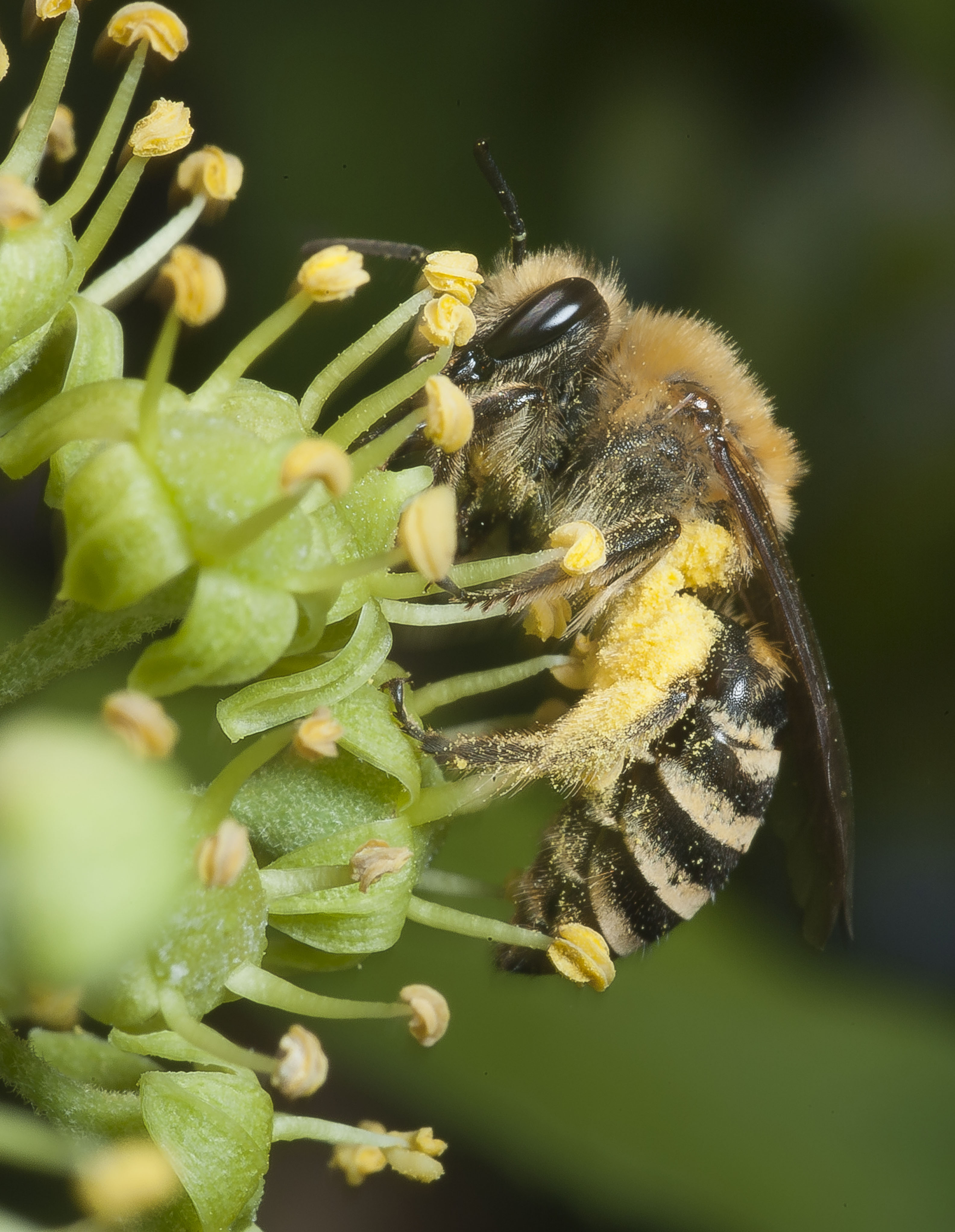 Colletes hederae on ivy. Picture taken in Stuttgart, Germany.